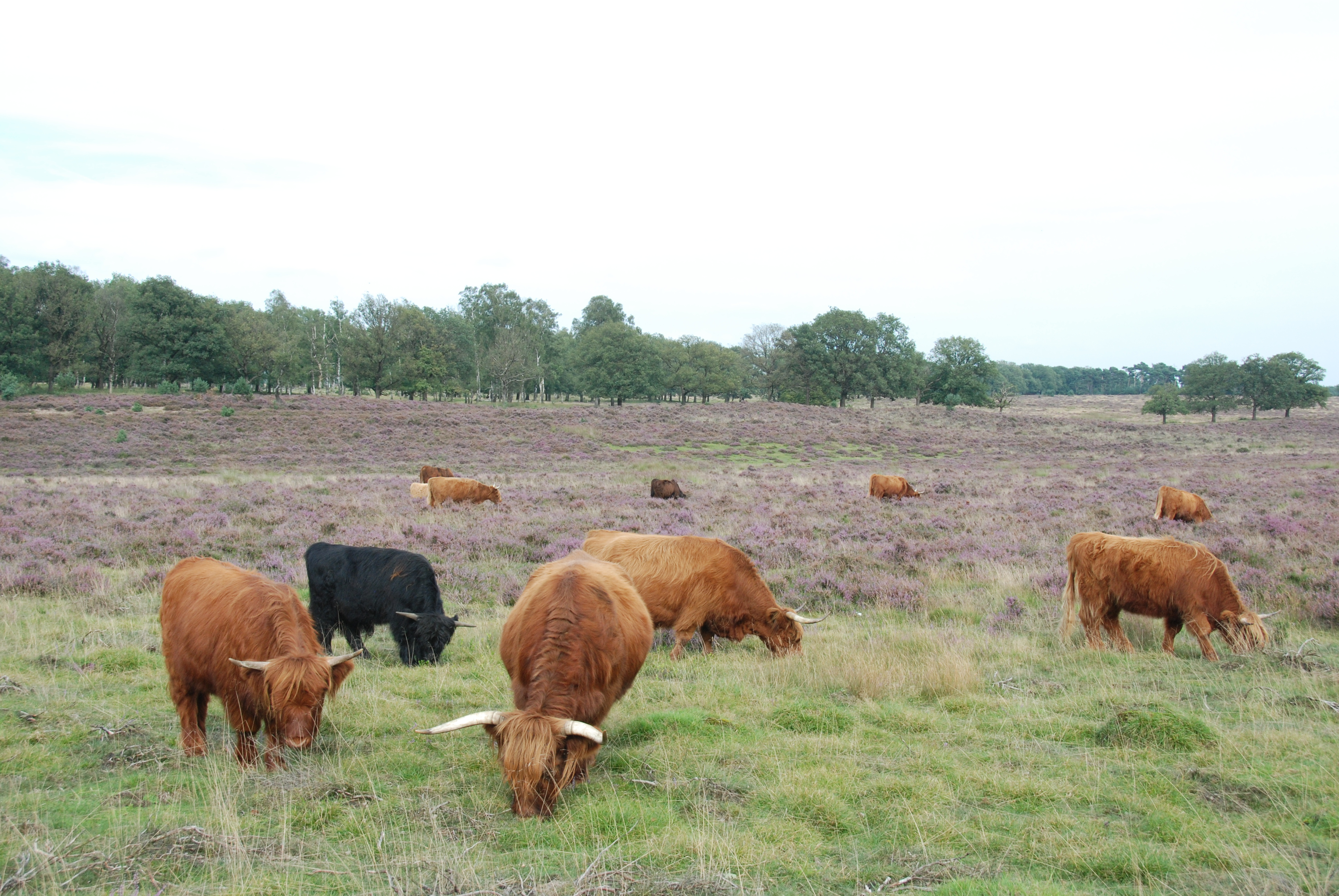 A herd of "Scottisch cows" at Deelwoud Arnhem Holland